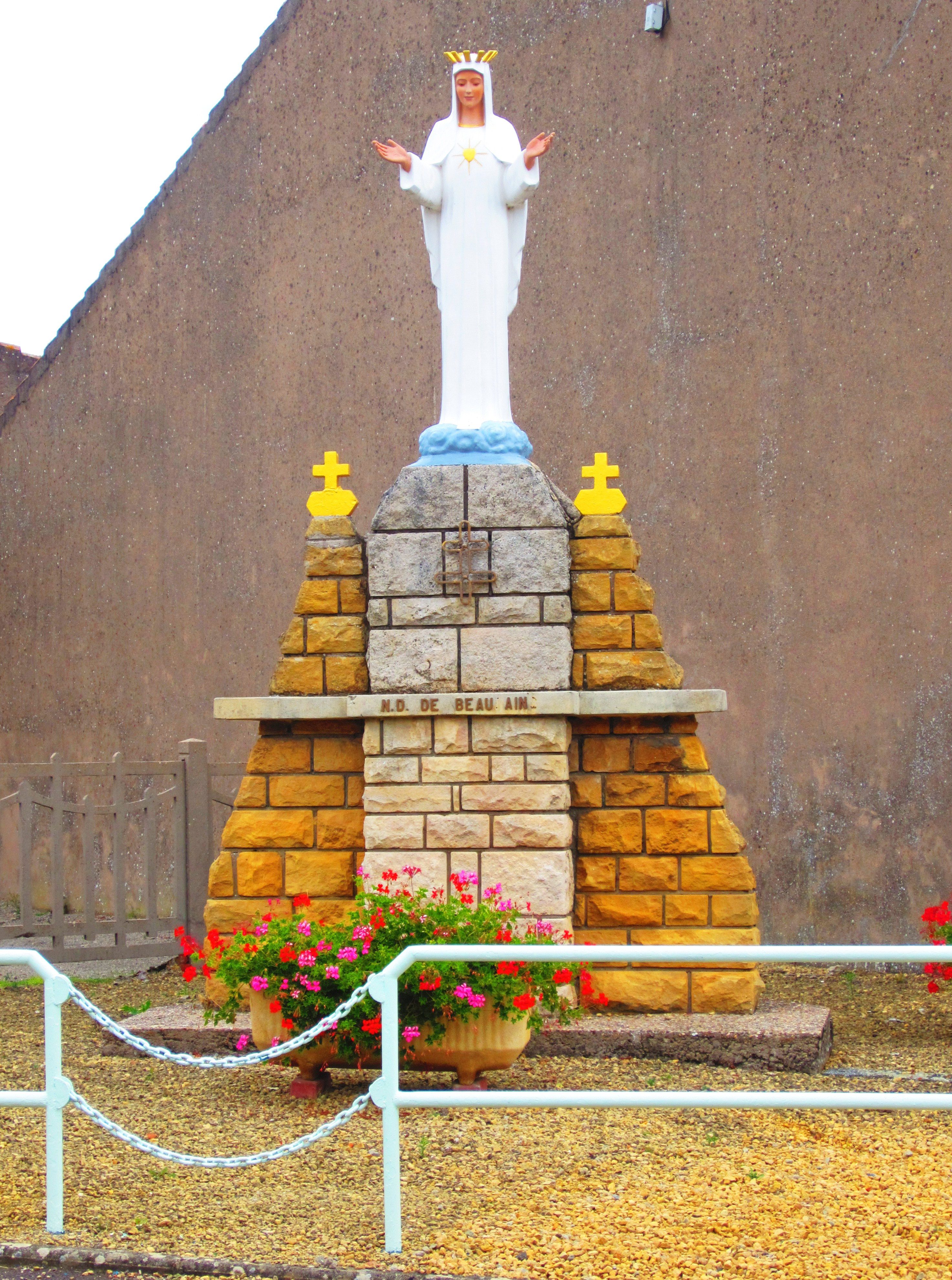 Oratoire Thimonville